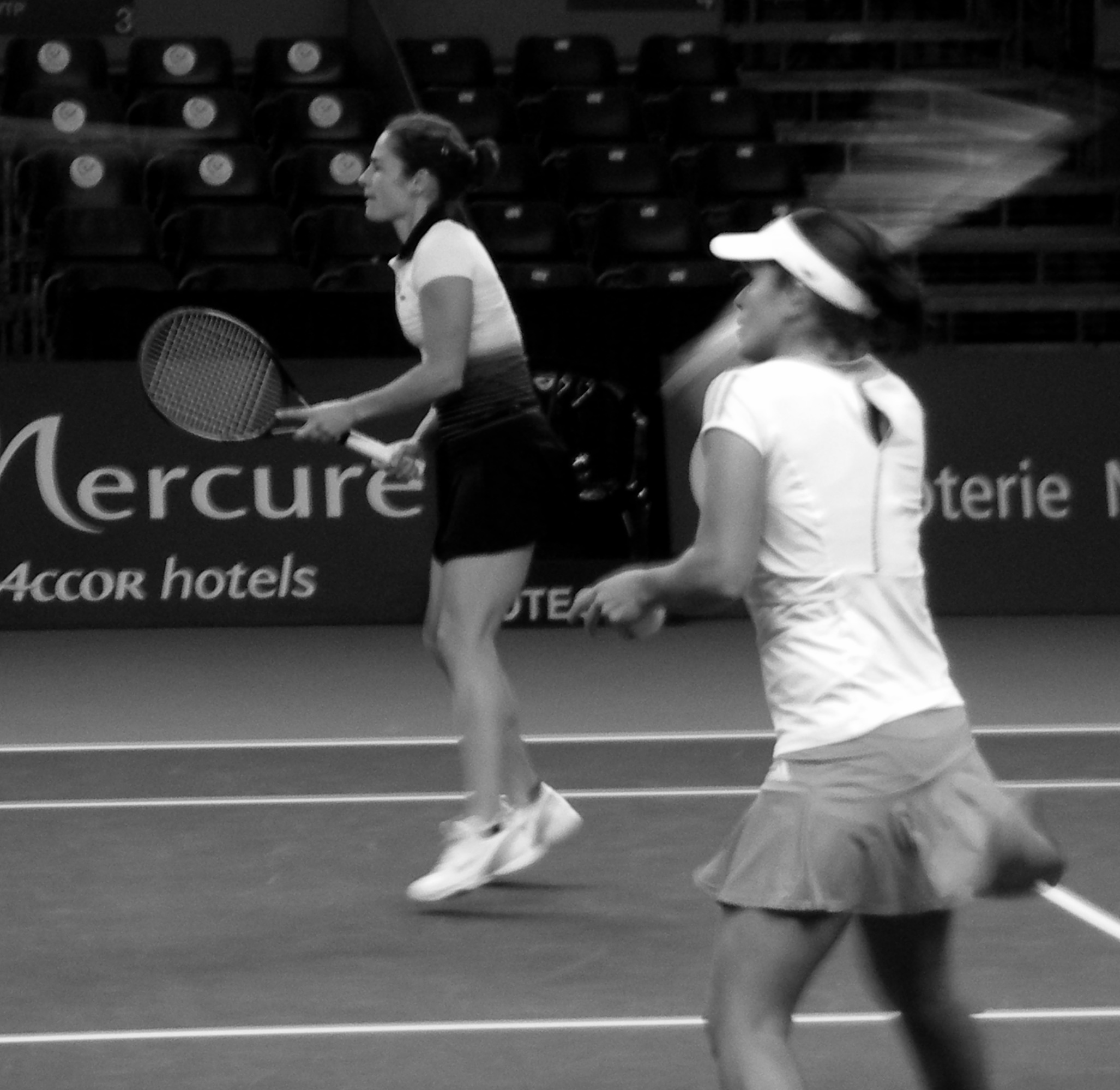 Virginia Ruano Pascual (left) and Anabel Medina Garrigues (right) at 2008 Fortis Championships Luxembourg